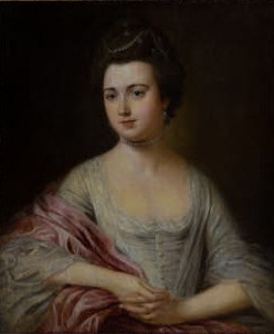 Portrait of Philippa Fuller (1745–1806), wife of William Dickinson (1745–1806), English merchant and politician.